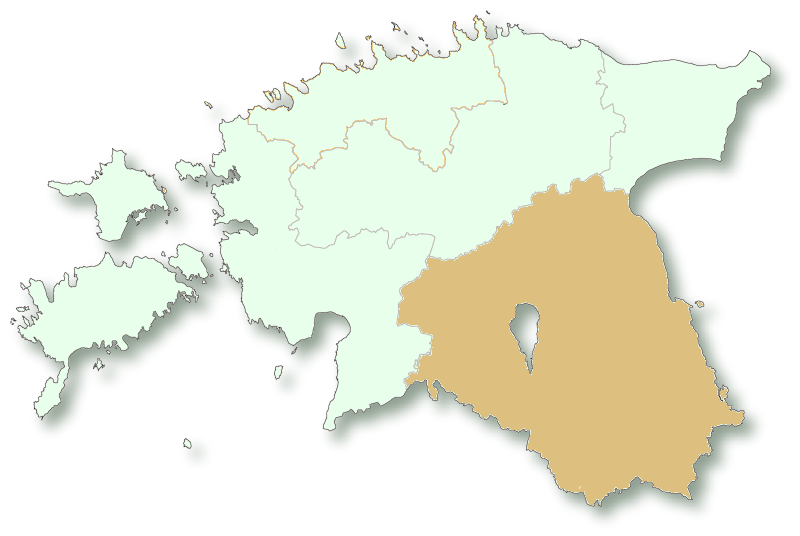 NUTS south, level 3.